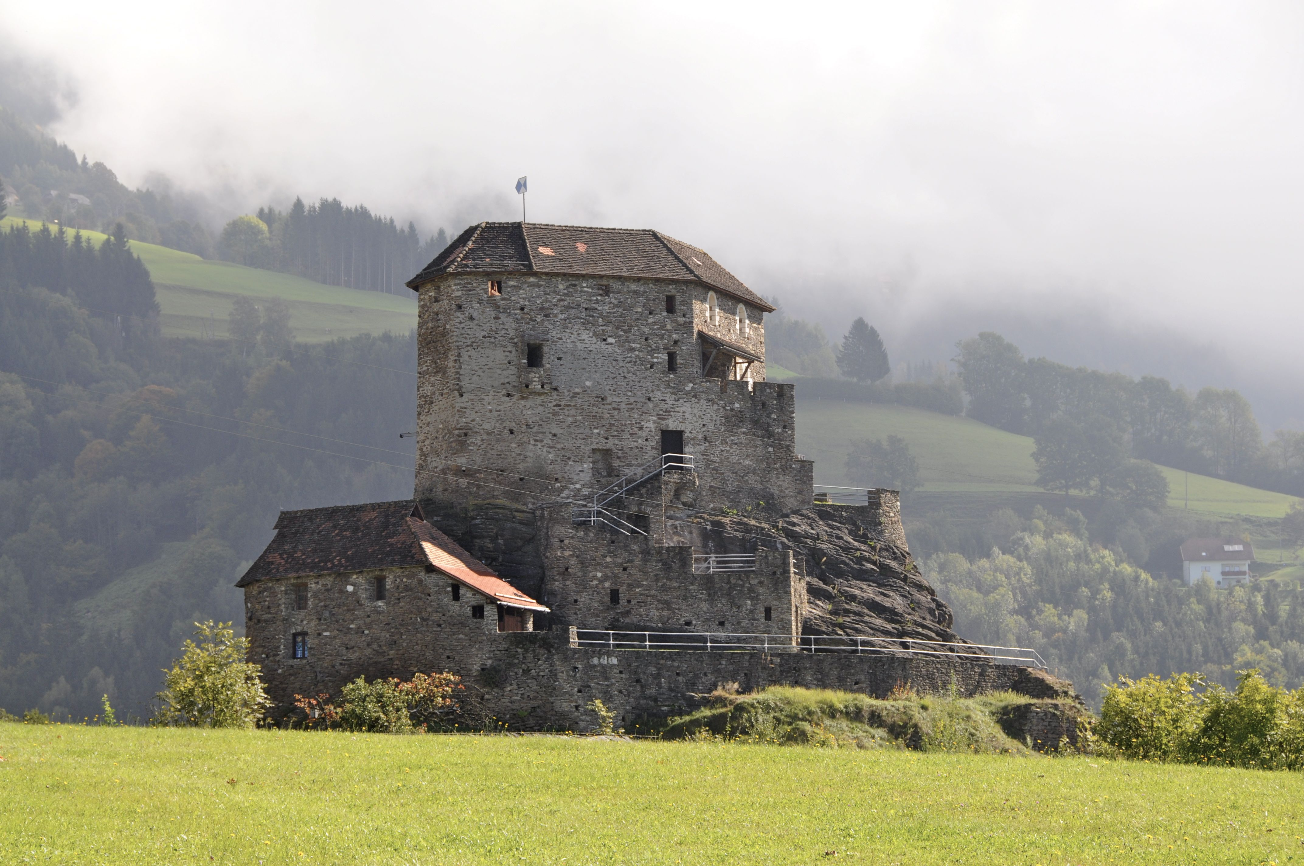 Castle ruin Stein at Steinberg-Oberhaus, municipality Sankt Georgen im Lavanttal, district Wolfsberg, Carinthia / Austria / EU